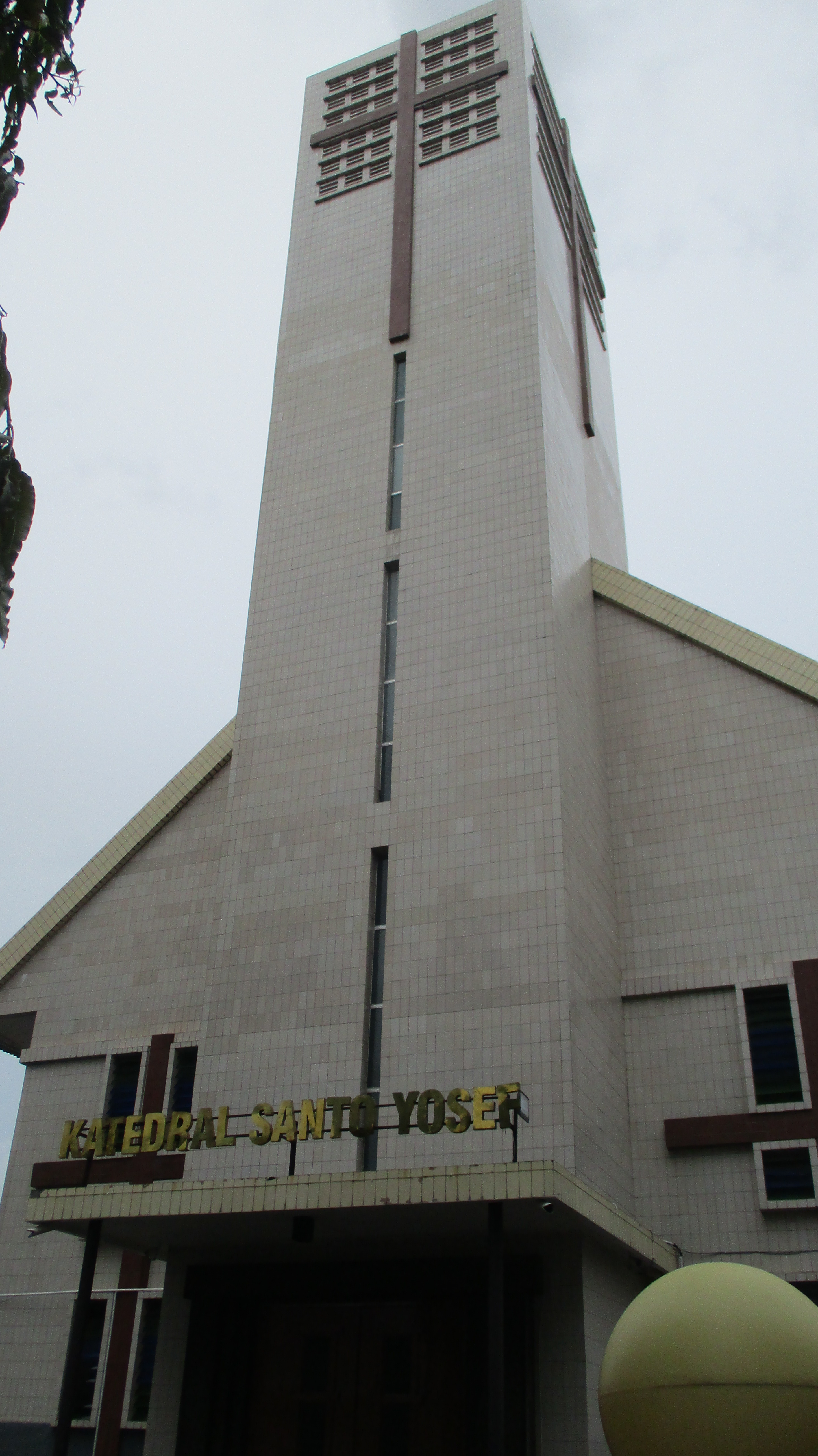 Saint Joseph Cathedral (Katedral Santo Yoseph) Pangkalpinang, Bangka Island.